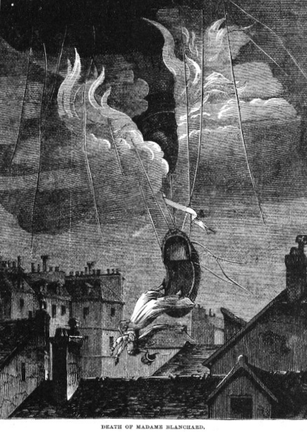 Madame Blanchard falls to her death after her balloon catches fire during a display in Paris 1819